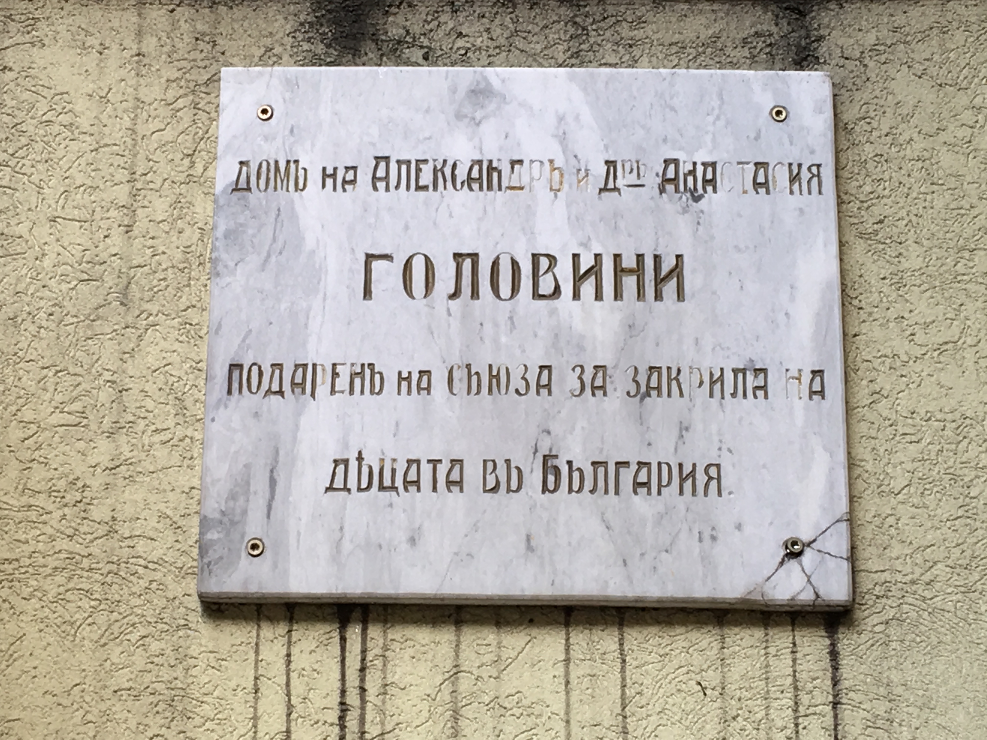 Memorial Golovini family Silistra